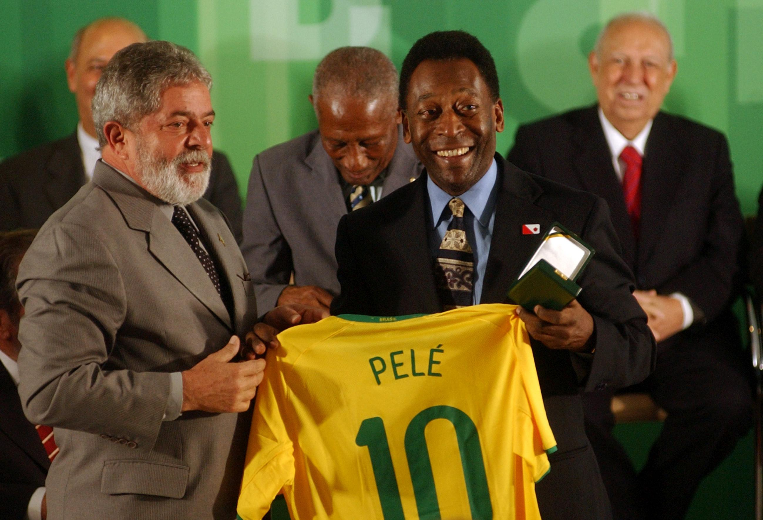 President Lula and former football player Pelé